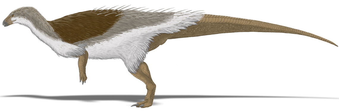 Thescelosaurus neglectus. Reprinted from original, previously-unpublished artwork by Leandra Walters under a CC BY license, with permission from Leandra Walters, original copyright 2015.